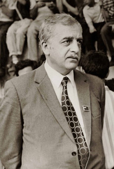 Leader of Georgian independence movement in late 80s, Zviad Gamsakhurdia. This photo taken in 1989 in Tbilisi during pro-independence rallies